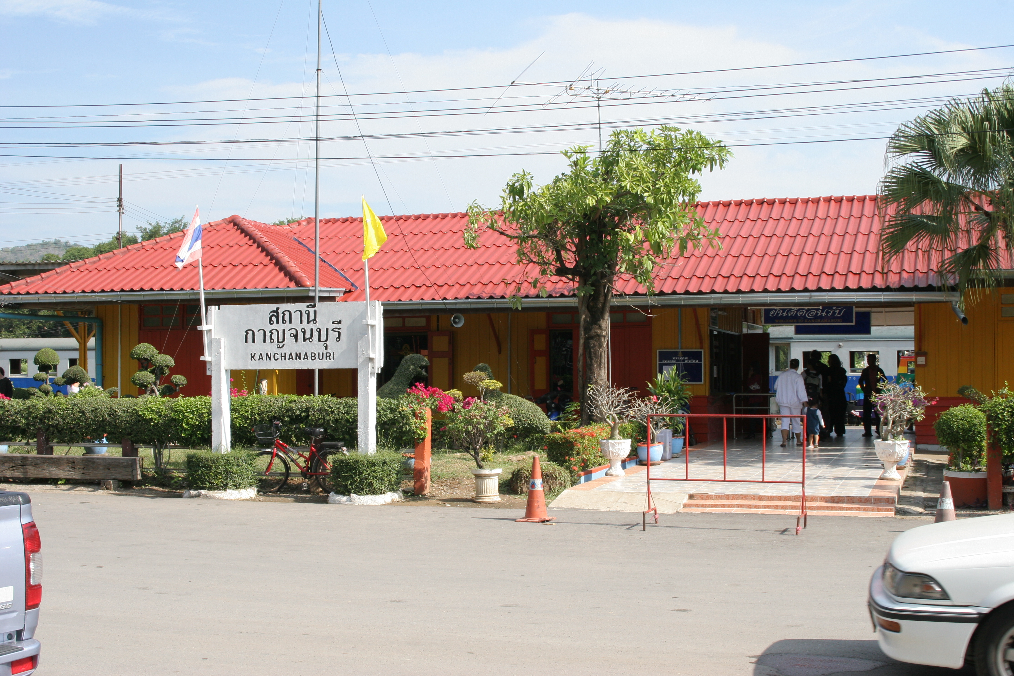 Kanchanaburi Railway Station